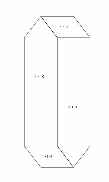 Crystal form of right-handed austinite